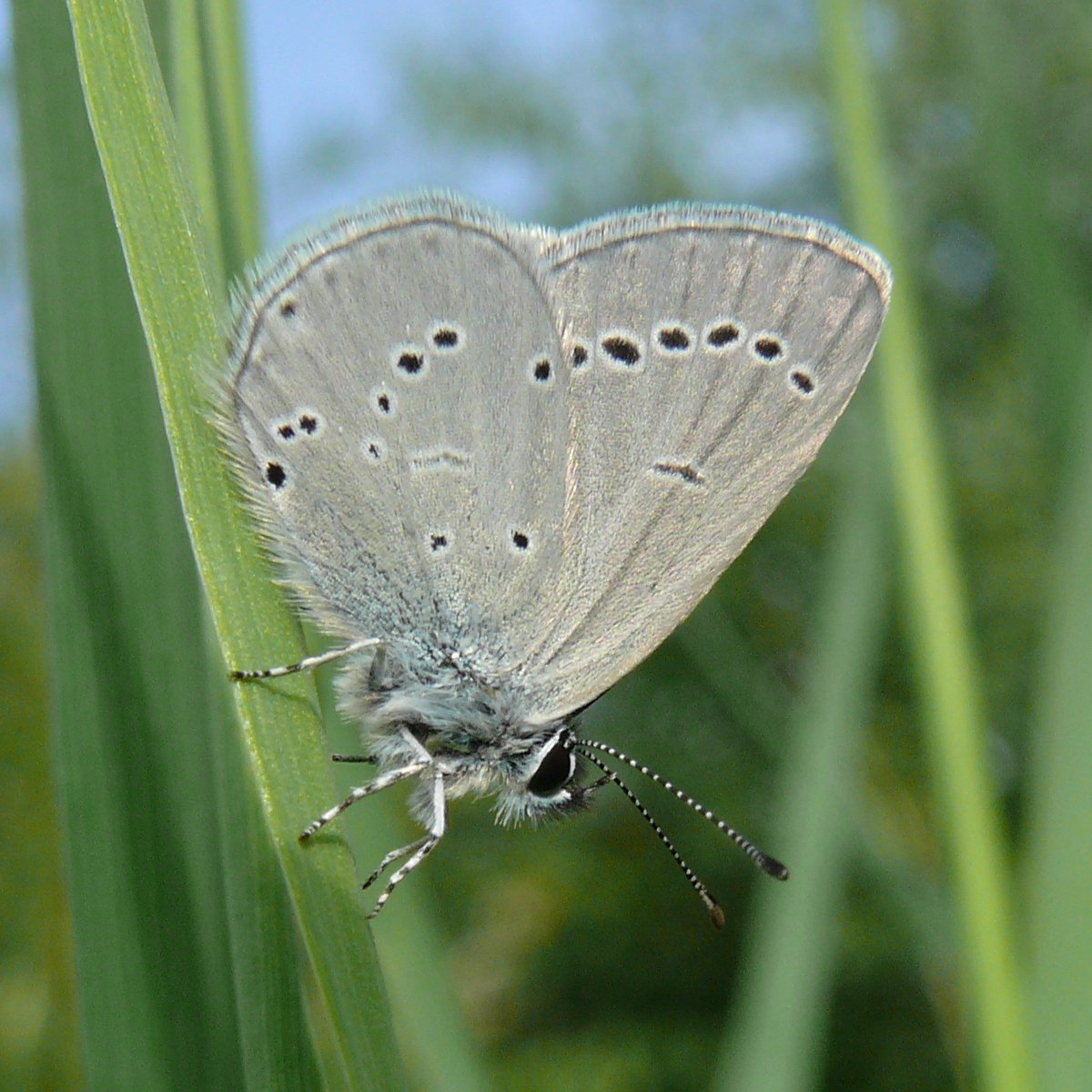 Small Blue, Munich, Riemer Park